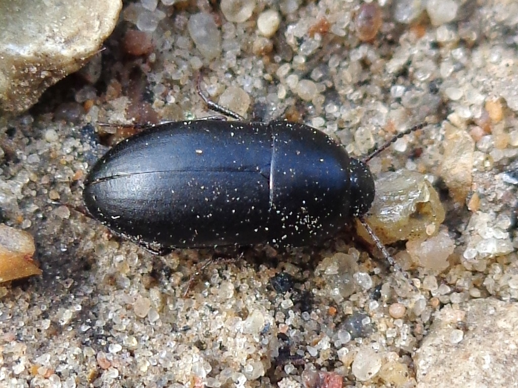 Crypticus quisquilius. Found in Rīga town, Latvia